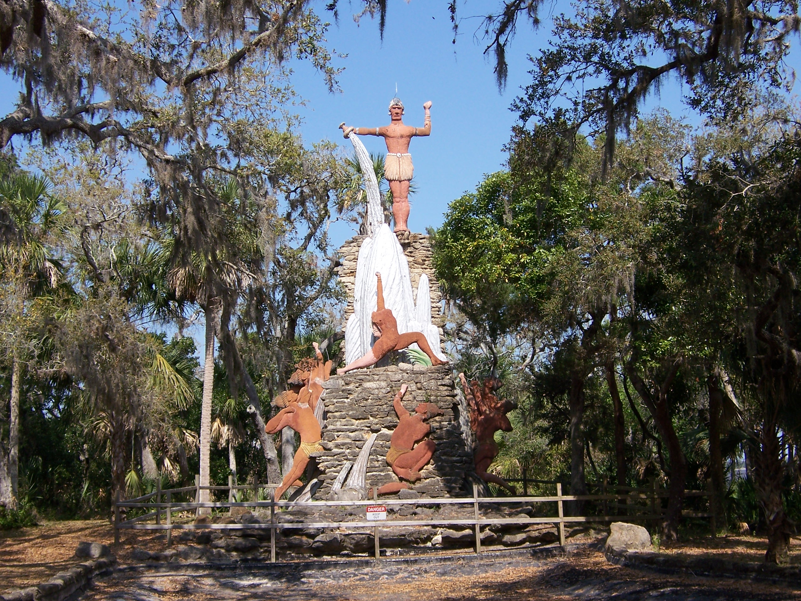 The Indian monument at Tomoka State Park, north of Ormond Beach, Volusia County, Florida.